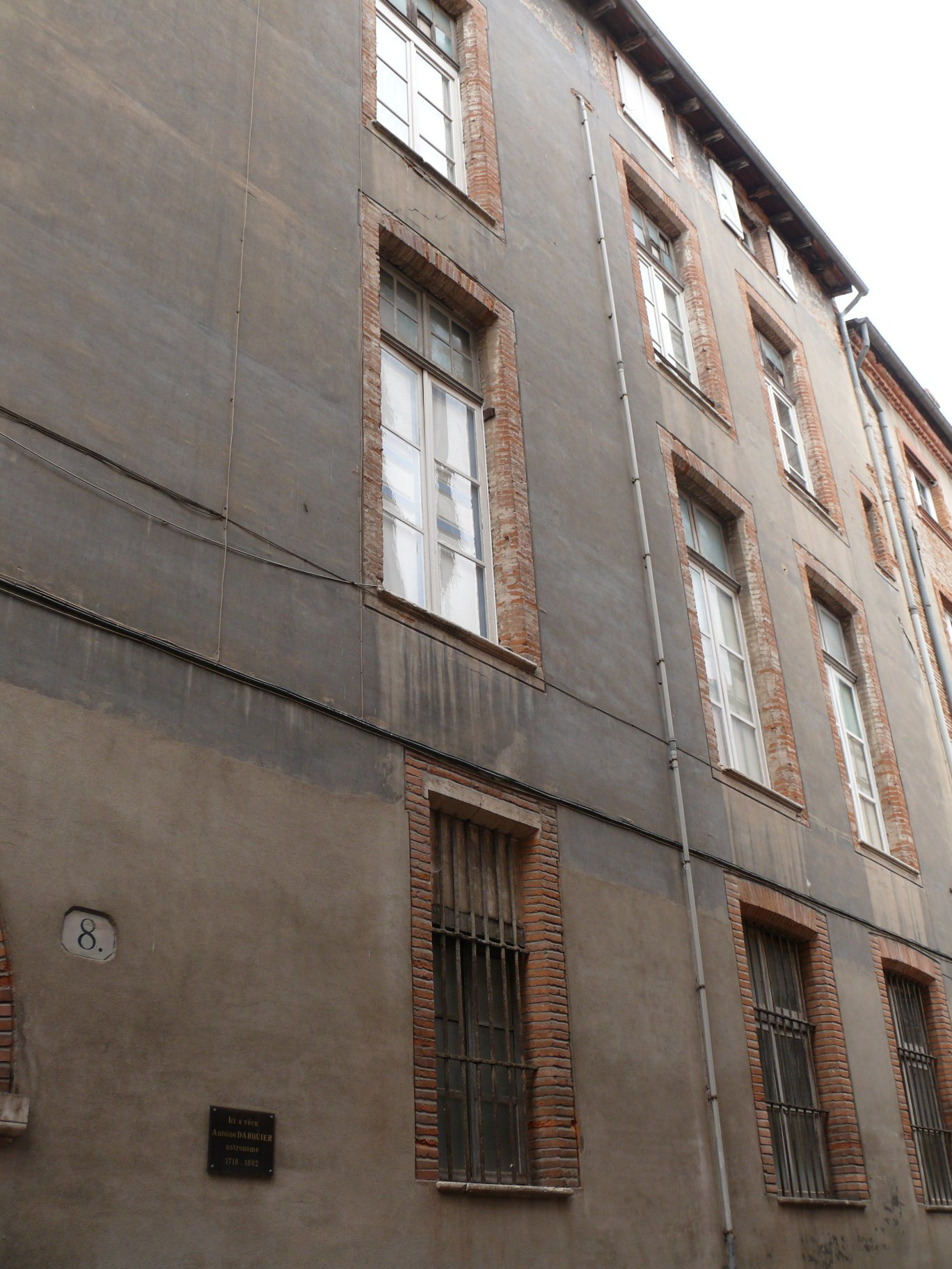 Antoine Darquier's house in Toulouse (Haute-Garonne, Midi-Pyrénées, France).